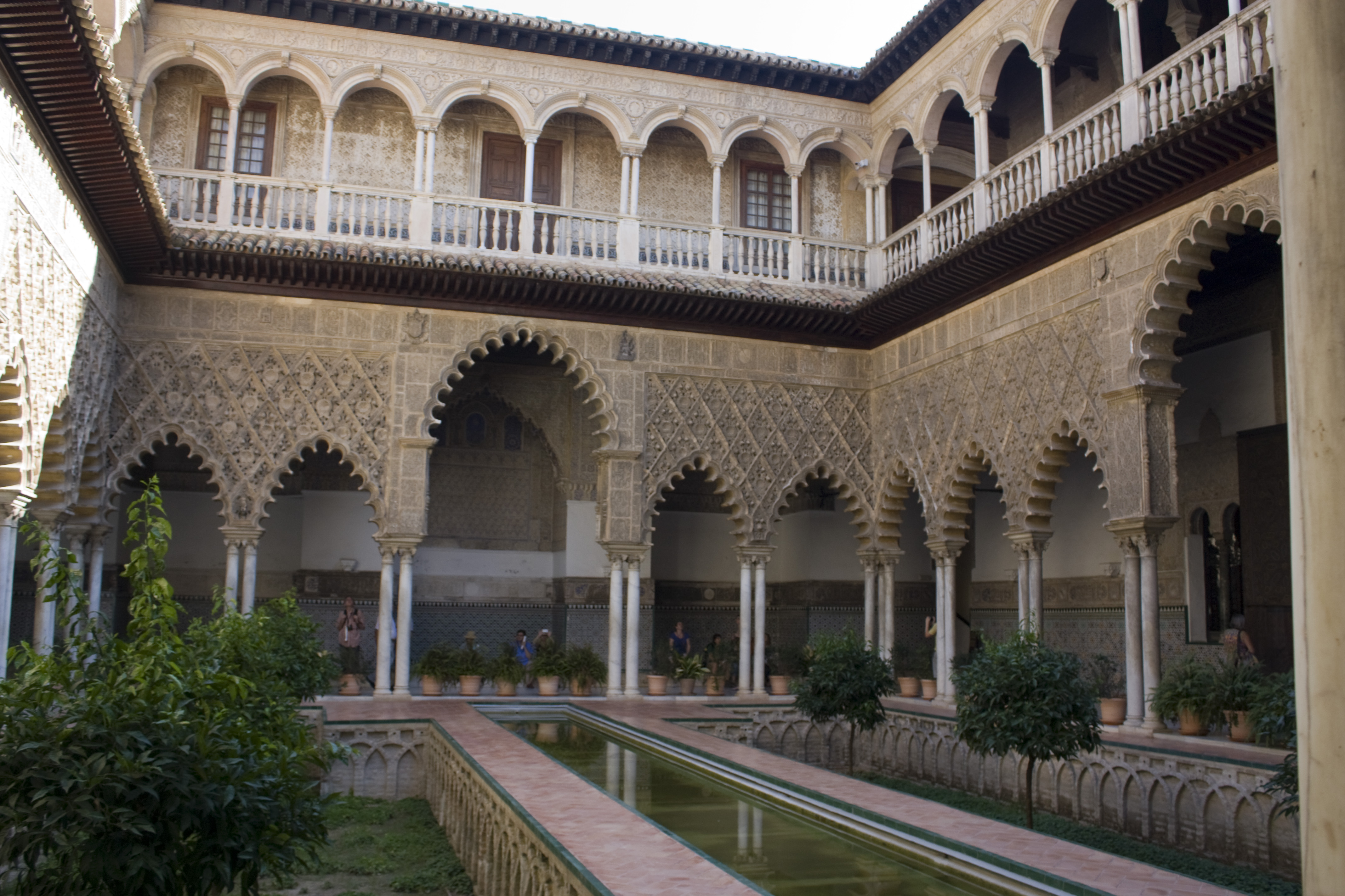 The basin is raised about two meters, so that the galleries are fragrant with flowers of orange tree that were put in.